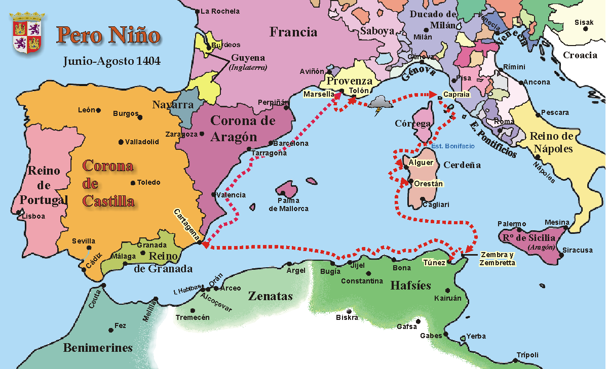 Second Mediterranean expedition (June–August 1404) of Castilian soldier, sailor and privateer Pero Niño (1378–1453).